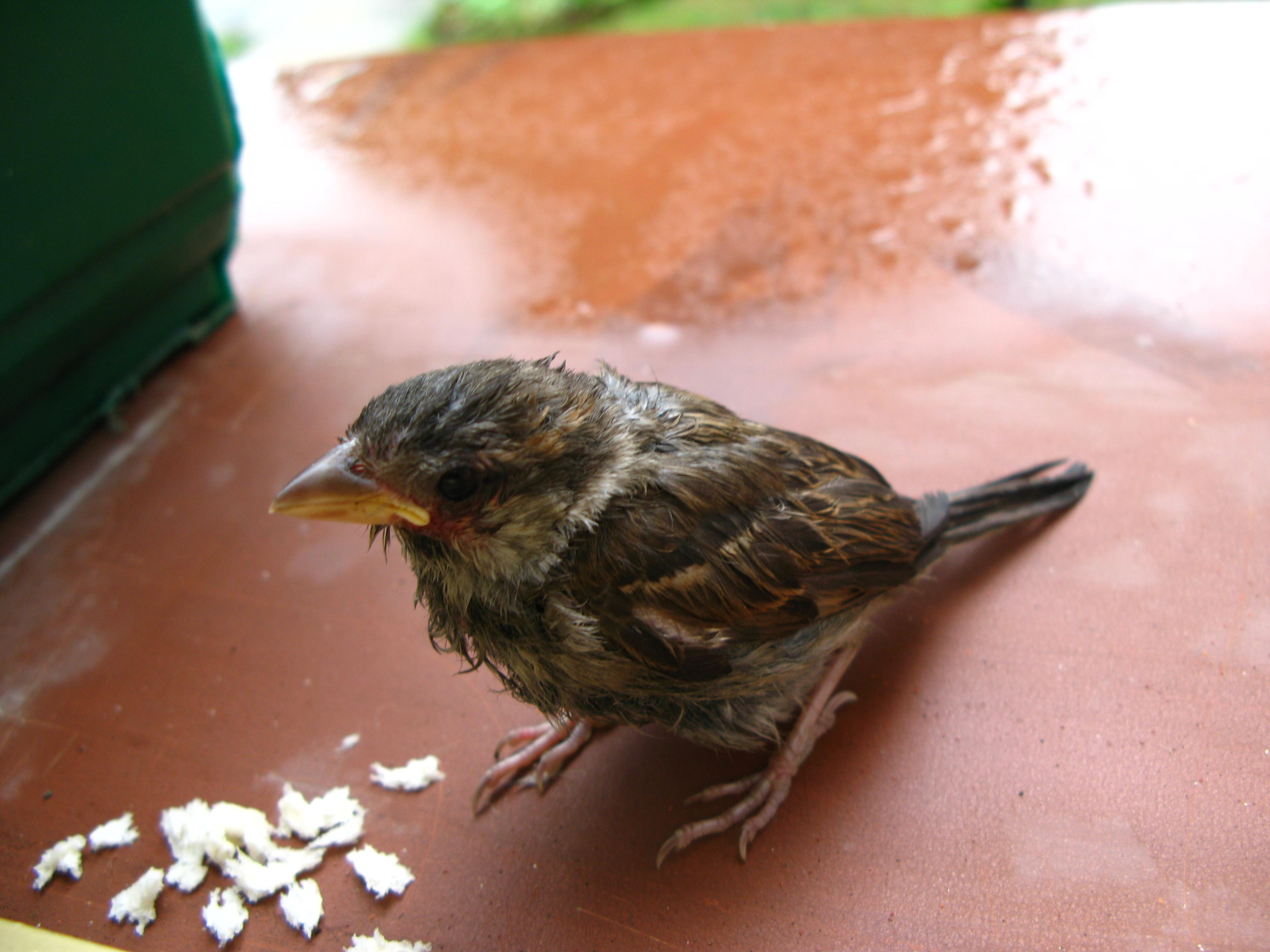 Juvenile Passer domesticus